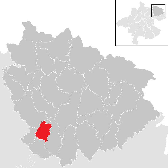 district Freistadt